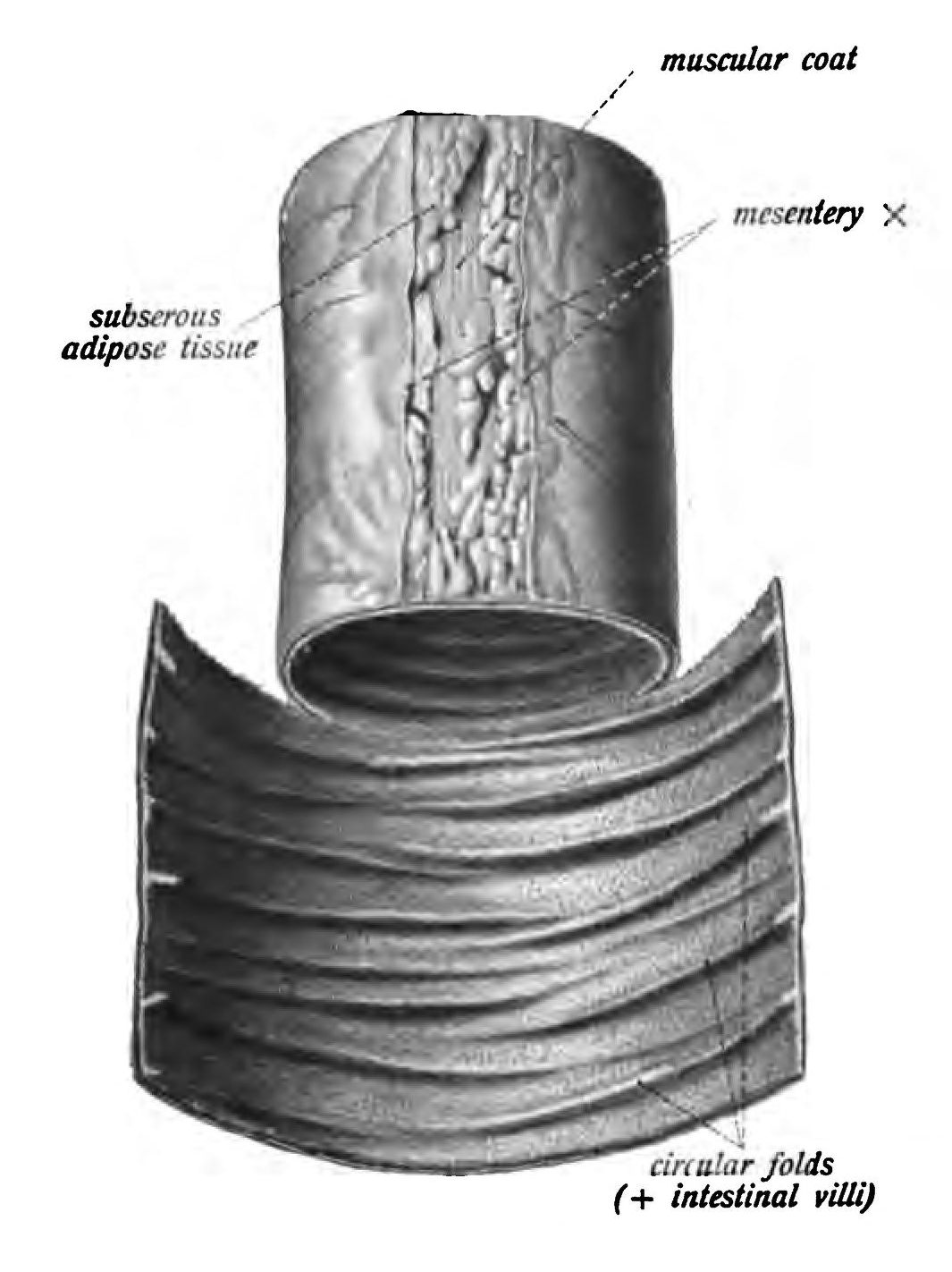 Small intestine (jejunus-ileum) with circular folds (plica, conniventes or Kerkring valves). An anatomical illustration from the 1906 edition of Sobotta's Atlas and Text-book of Human Anatomy with English terminology.